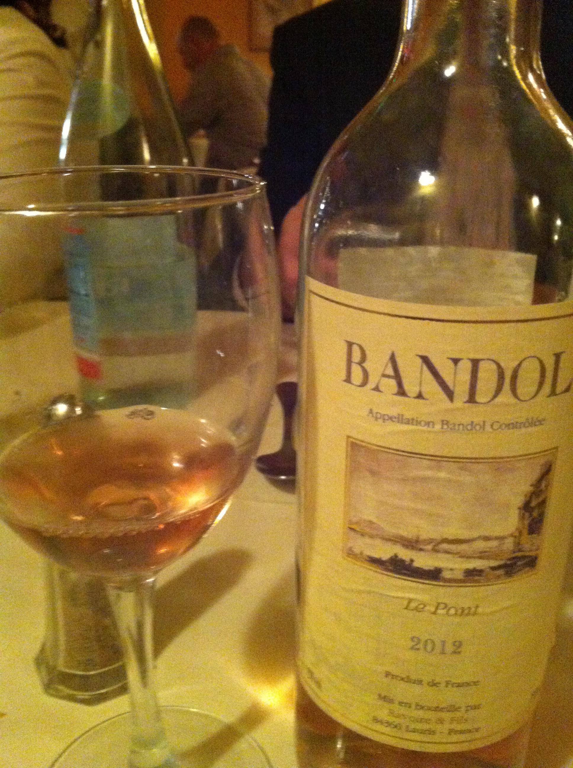 French wine from the Provence wine region of Bandol made mostly from Mourvèdre